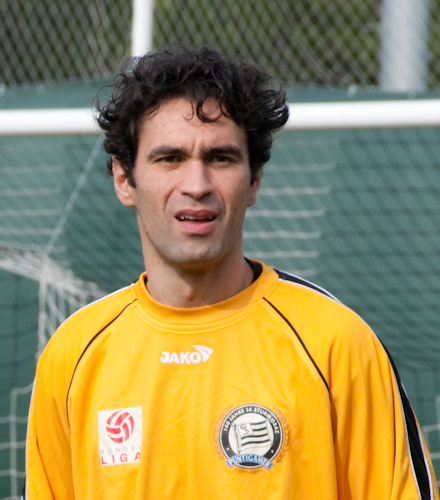 Peter Hlinka